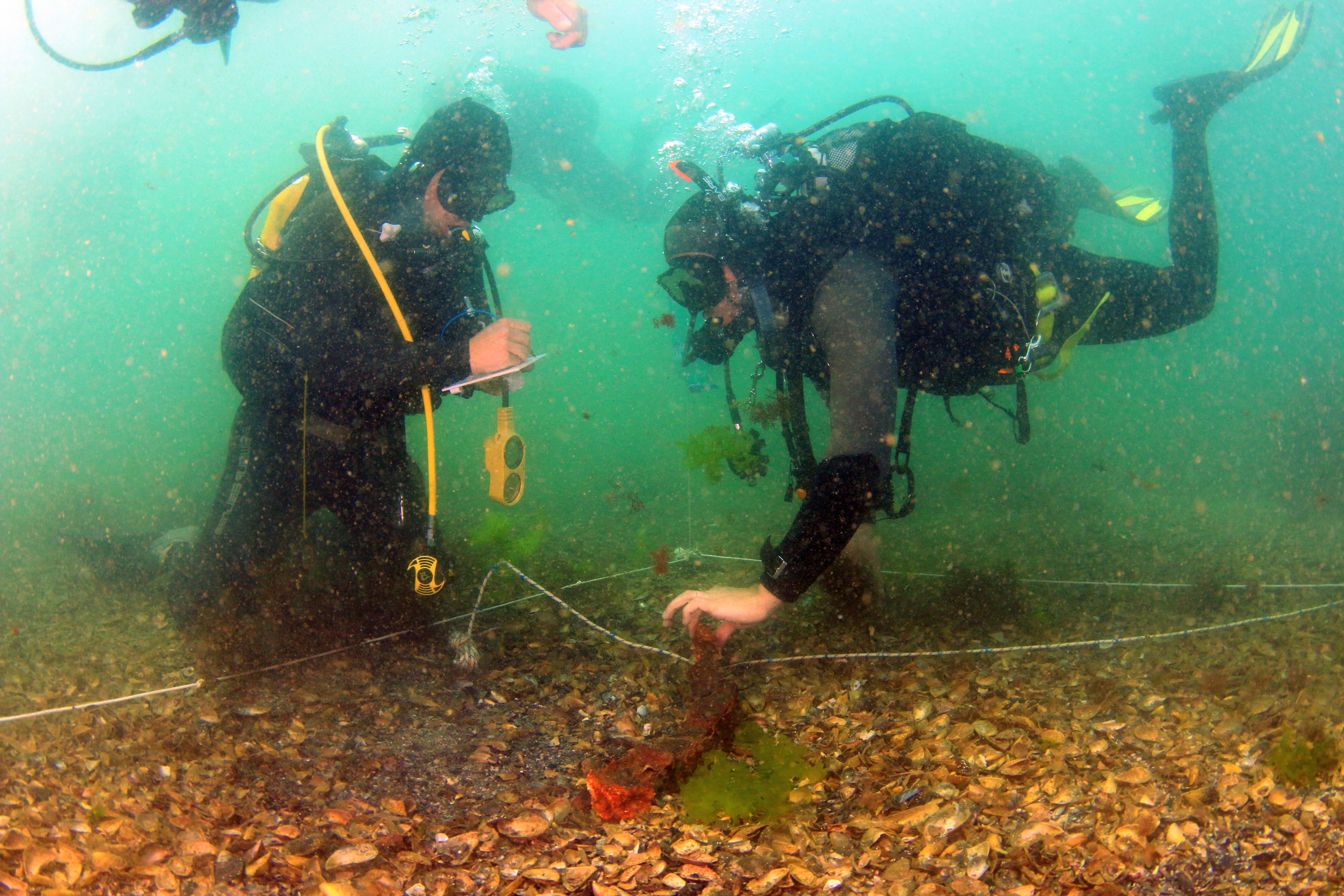 Expedition Maslen 2015 archaeological excavations